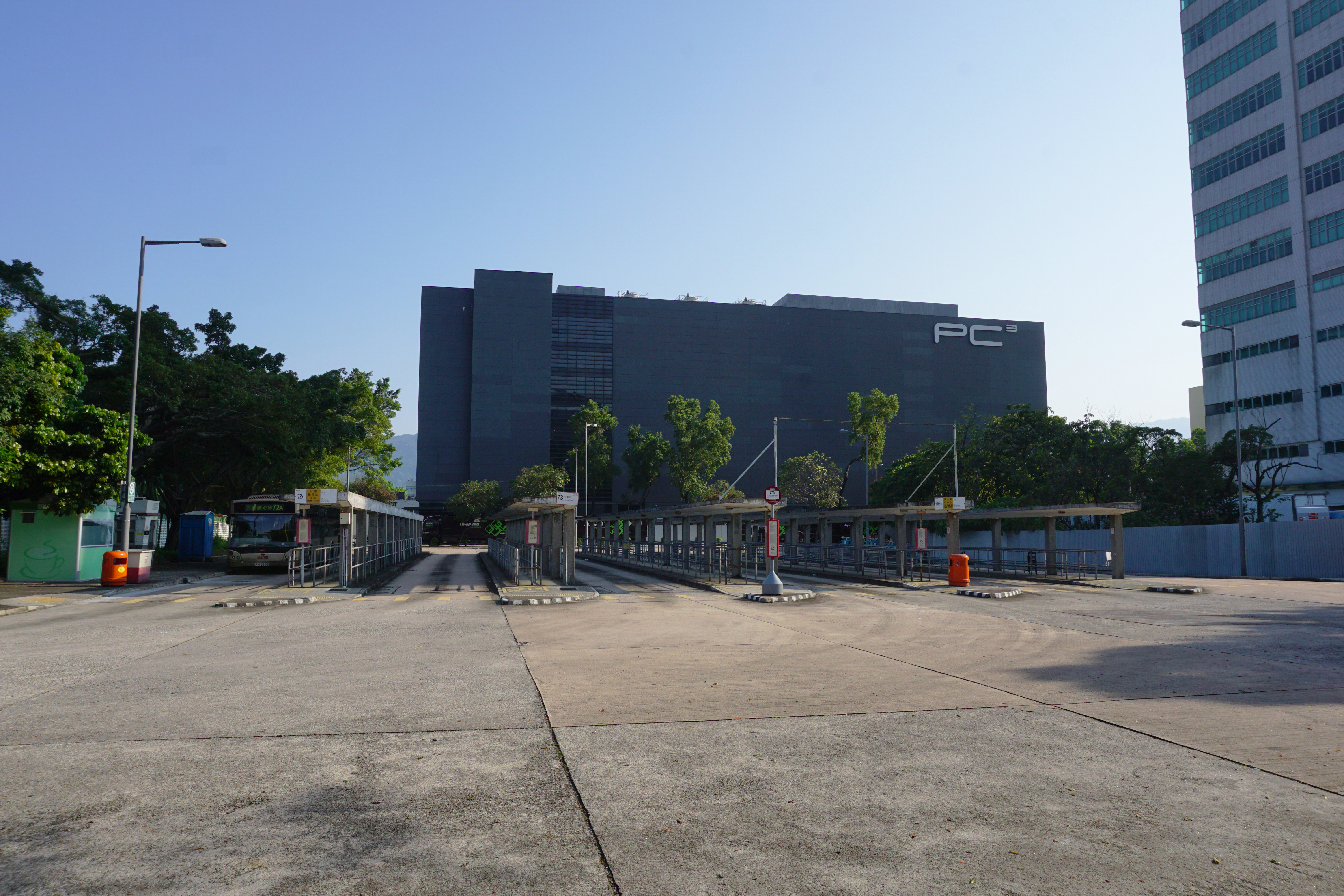 Industrial Estate Bus Terminus in Tai Po, Hong Kong.